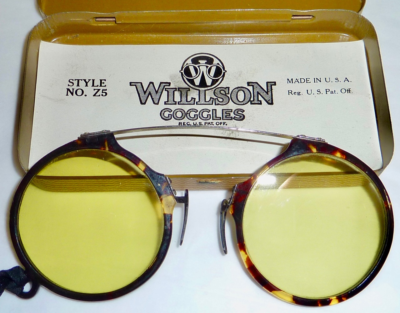 Willson Goggles pince-nez angled against tin box with box card behind.